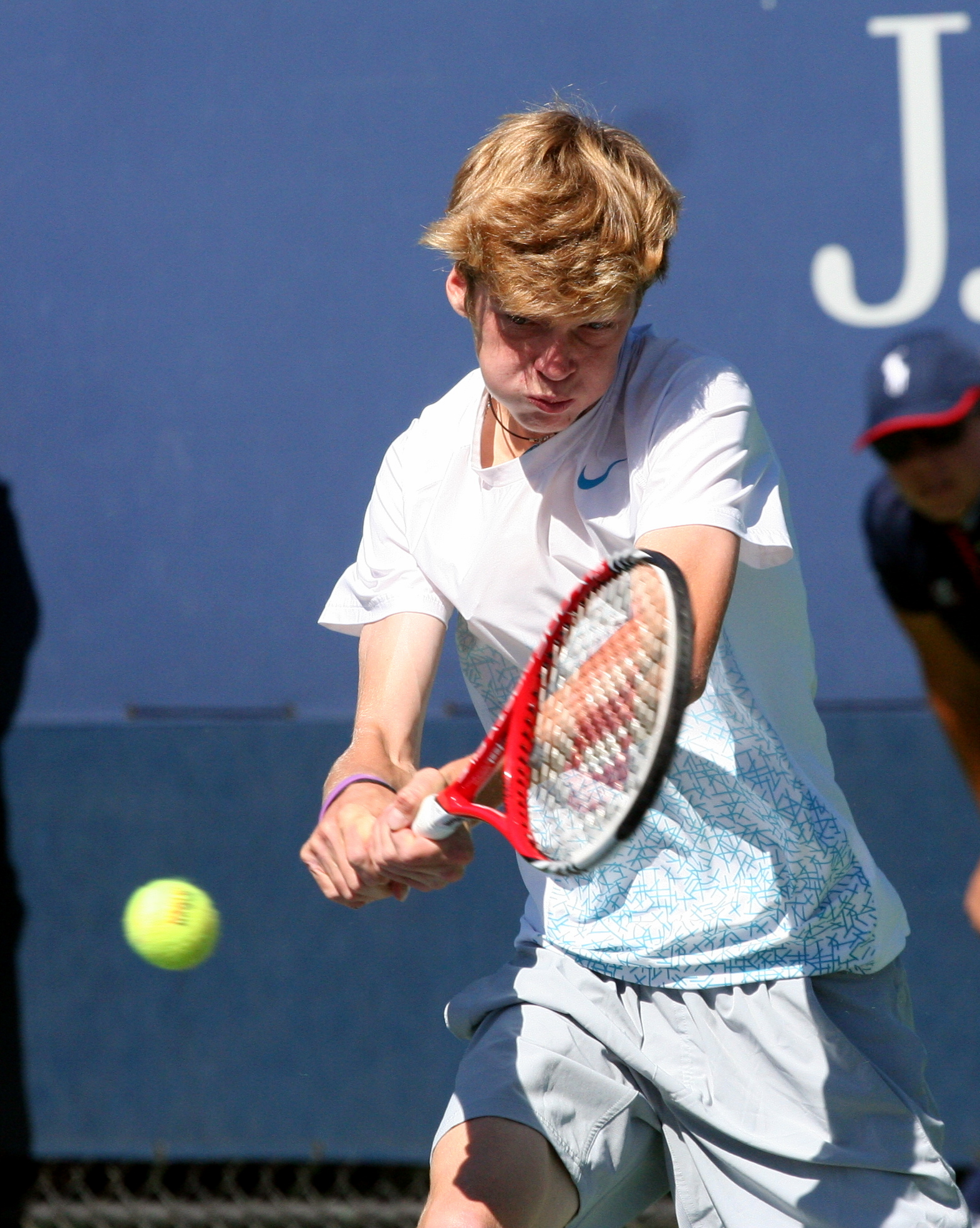 Wednesday, Sept. 4, 2013